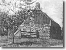 Old black and white photo of stone house built by Stephen Bourdette near Burdett's Landing and occupied as George Washington's headquarters at Fort Lee during the Revolutionary War.